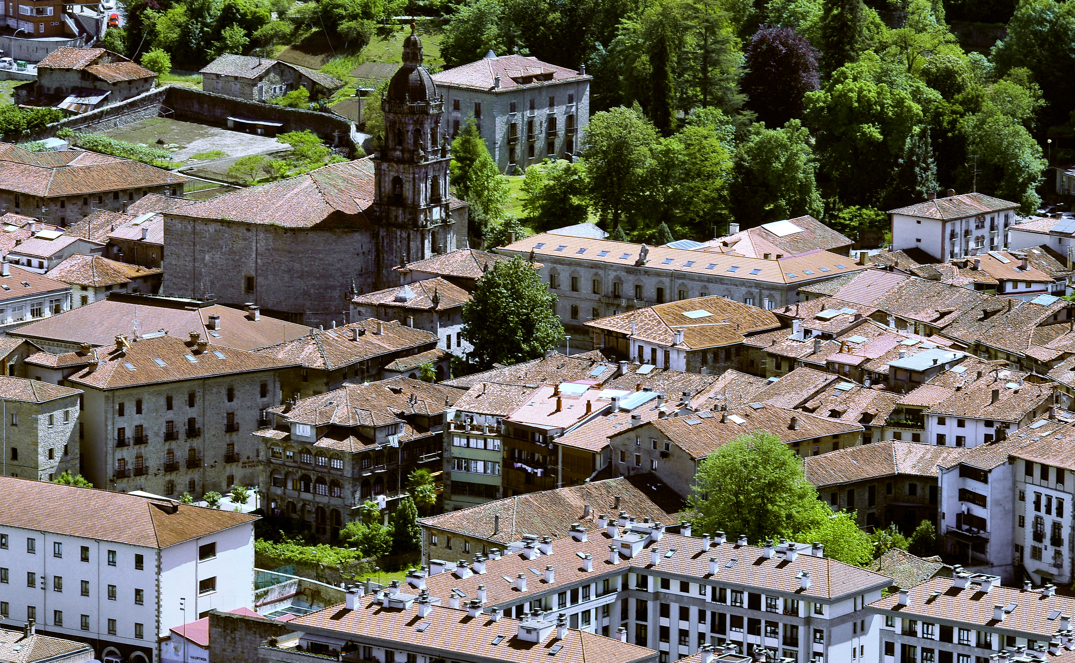 Downtown. Bergara, Gipuzkoa, Basque Country, Spain